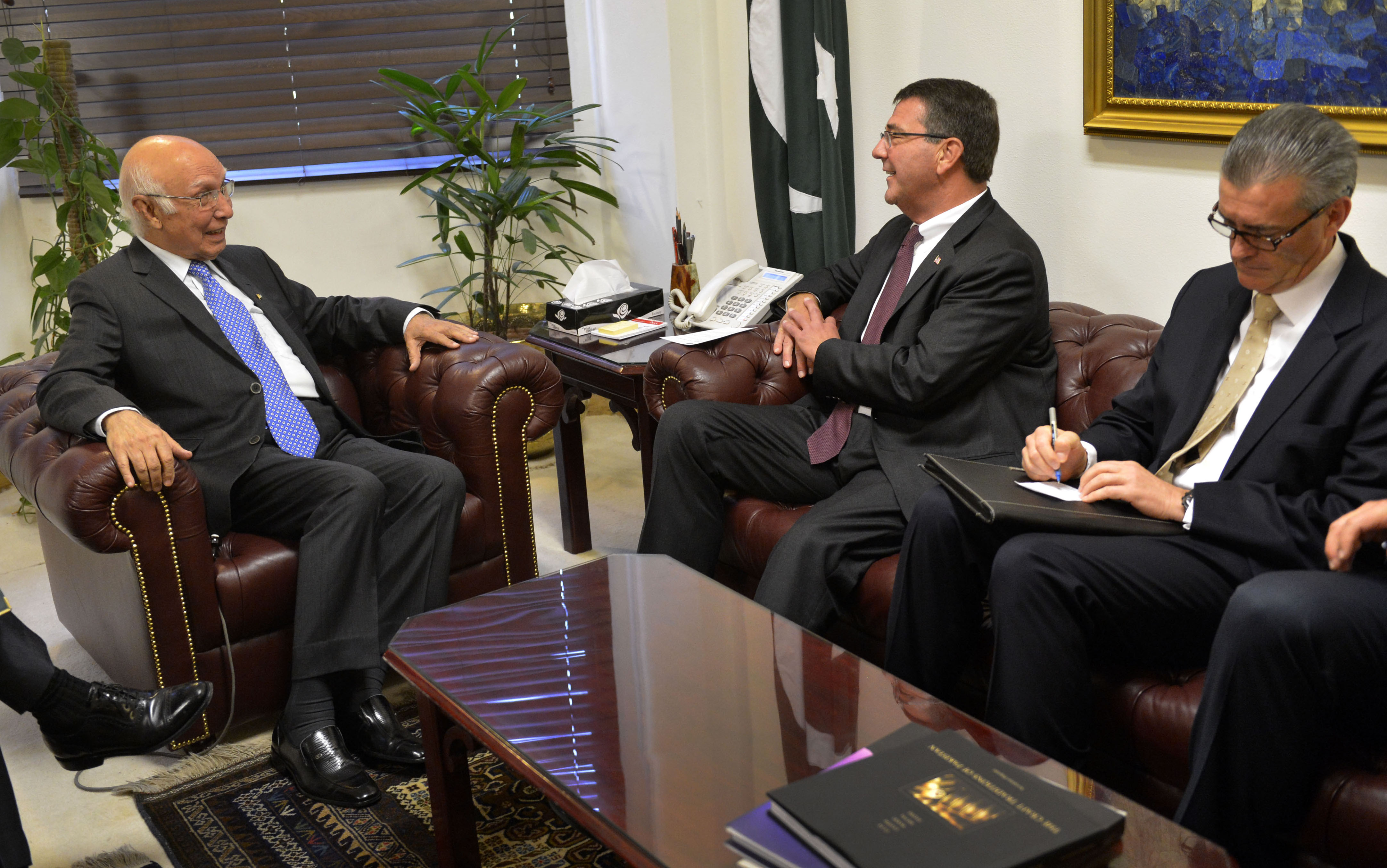 Former U.S. Deputy Defense Secretary Ash Carter meets with Sartaj Aziz, advisor to Pakistan's prime minister for foreign affairs and national security, as he visits Islamabad, Sept. 16, 2013.